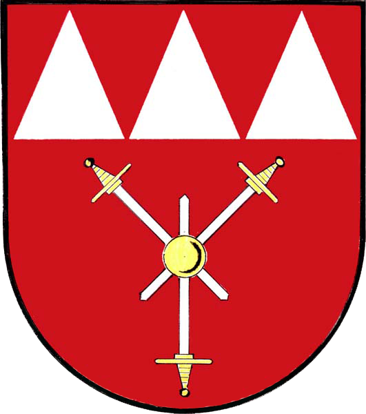 Coat of arms of village Slavkov in Moravian-Silesian Region, Czech Republic. Česky: Znak Slavkova, obce v Moravskoslezském kraji. (Blason: V hlavě červeného štítu tři stříbrné kužely, pod nimi zlatá koule probodena třemi stříbrnými meči se zlatými rukojeťmi.)